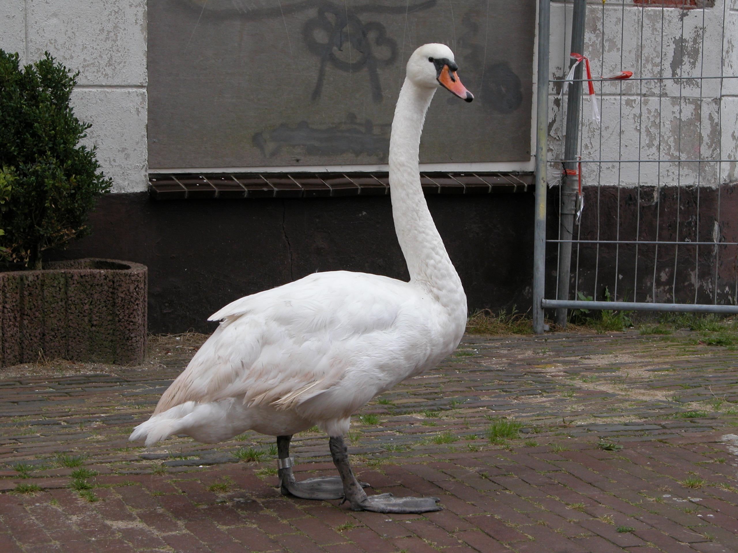 Swan specie: Gygnus Olor